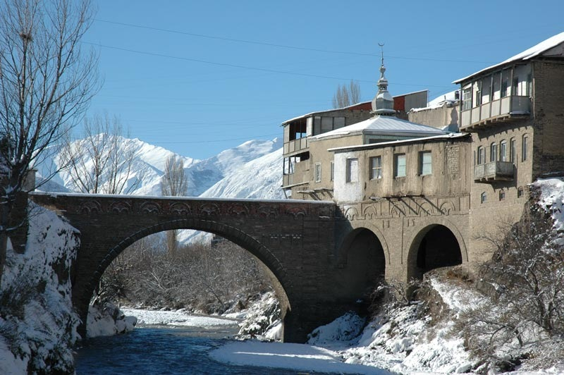 Yarusadag mount from Akhty